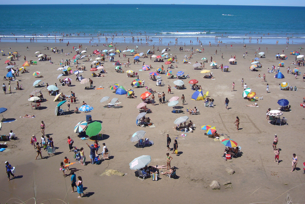 Beach of Las Grutas, spa neighbourhood of San Antonio Oeste, Argentina